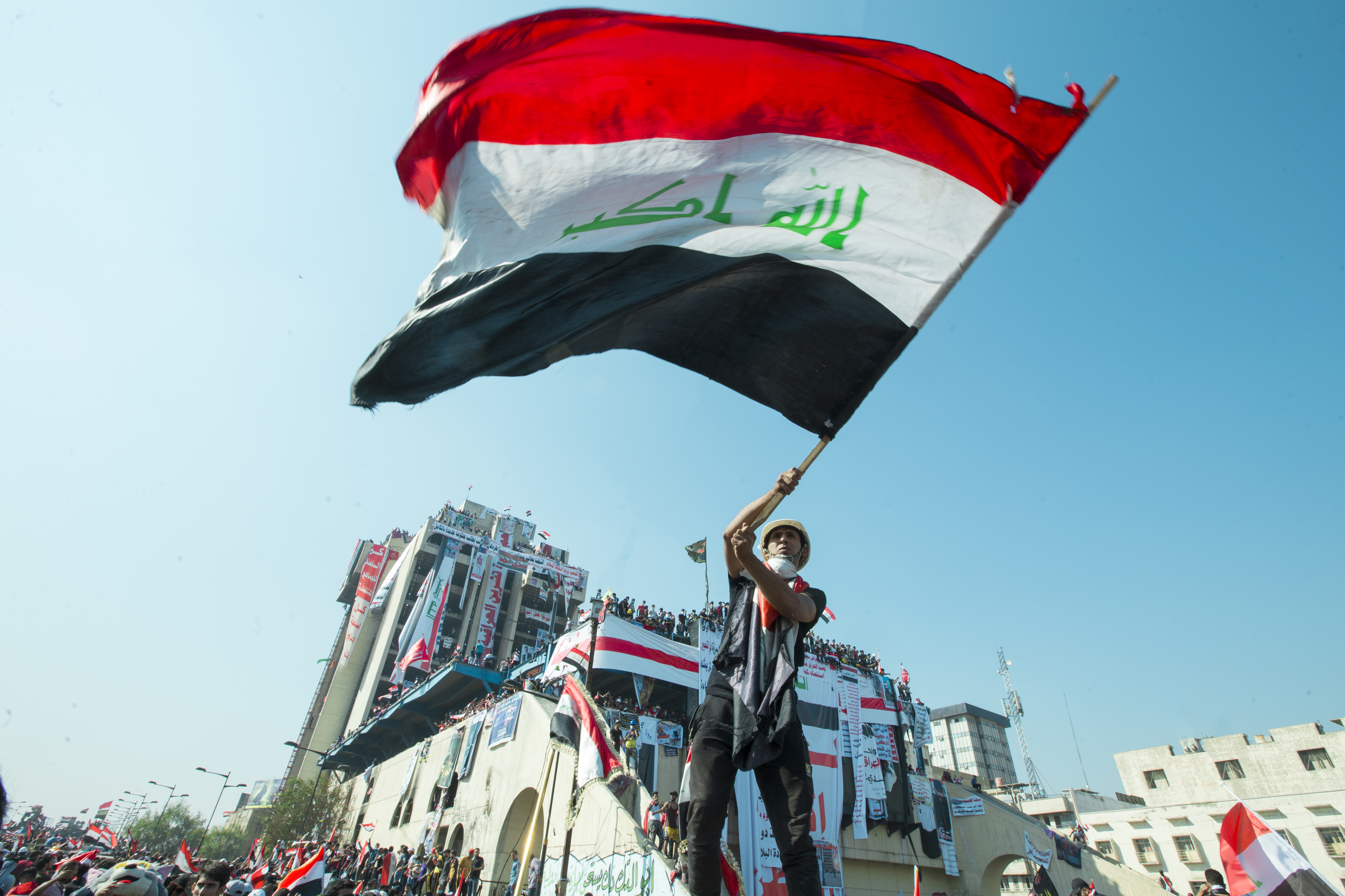 An Iraqi protester holds a flag in the October Revolution